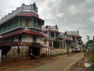 Aththangudi Palace, Atthangudi, Sivaganga district, Tamil Nadu, India